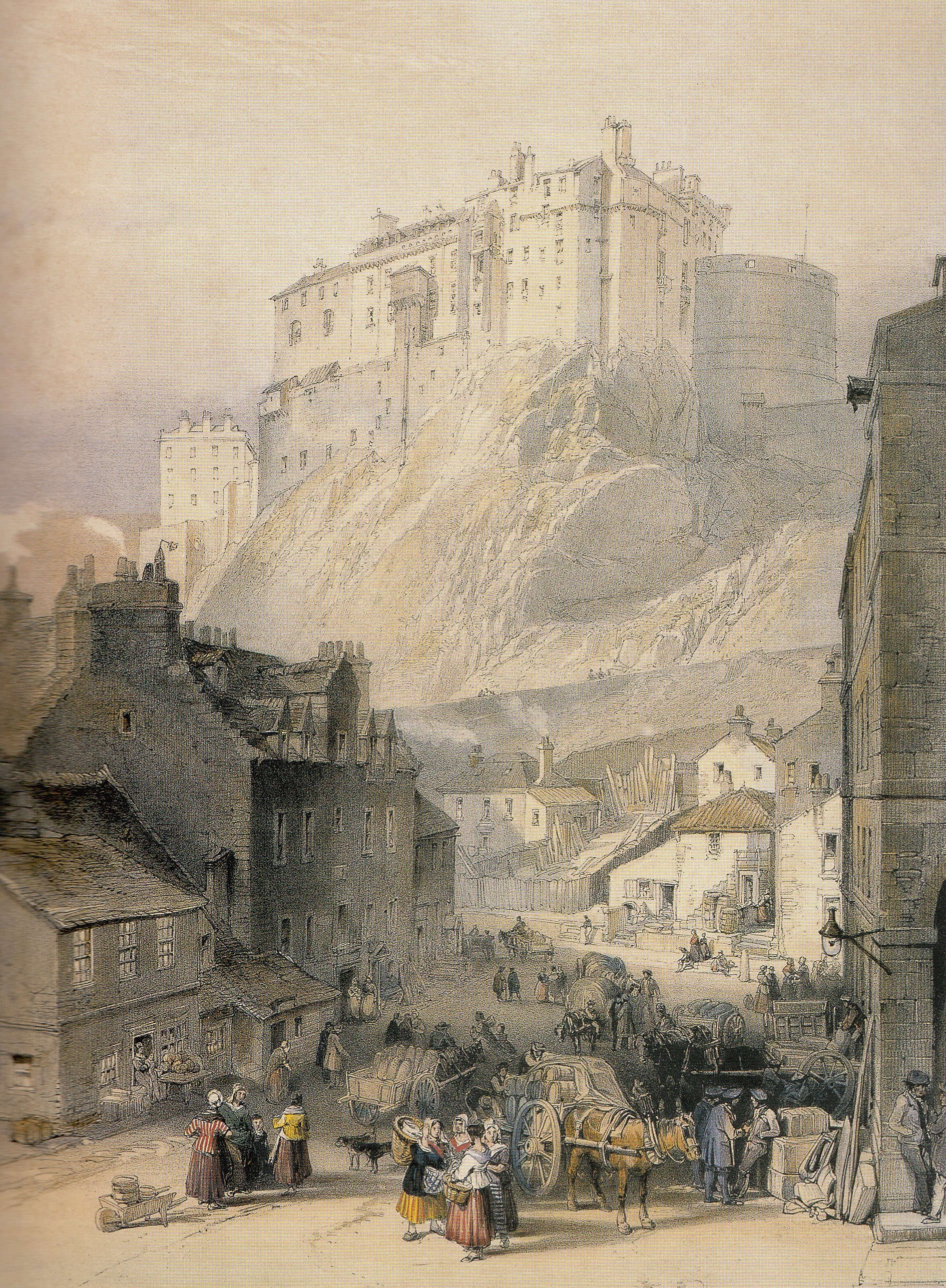 The Edinburgh Grassmarket by W. L Leitch, c.1854. Note the brewer's dray from one of the city's many breweries. The Heriot Brewery of John Jeffrey & Co. stood on the opposite side of the street from this view, so it may have been one of theirs.